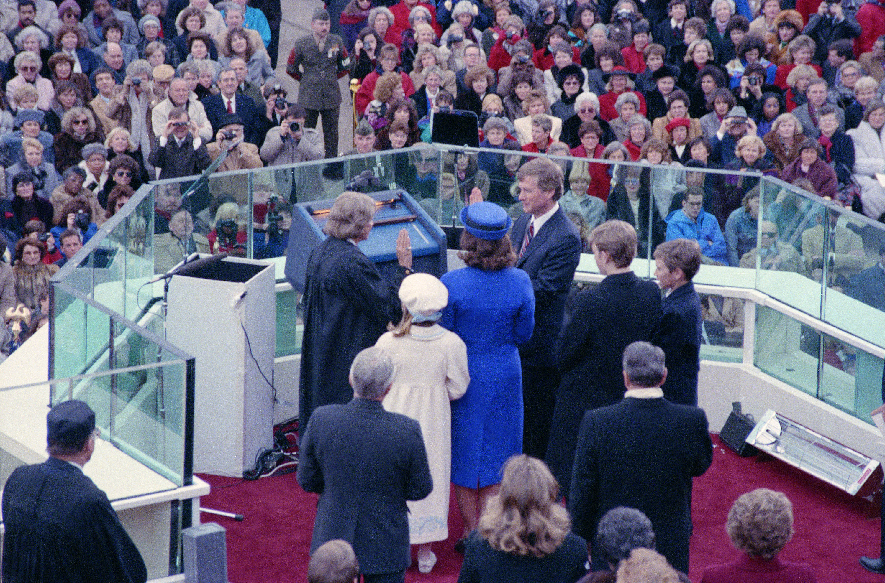 Description: 89-2842.5, 1989 Presidential Inauguration, George H. W. Bush, Inaugural Quayle, Swearing In, from 35mm color negative. Creator/Photographer: Jeff Tinsley Medium: C-type print Culture: American Date: 1989 Persistent URL: [1] Repository: Smithsonian Institution Archives/Smithsonian Photographic Services Accession number: 89-2842.5